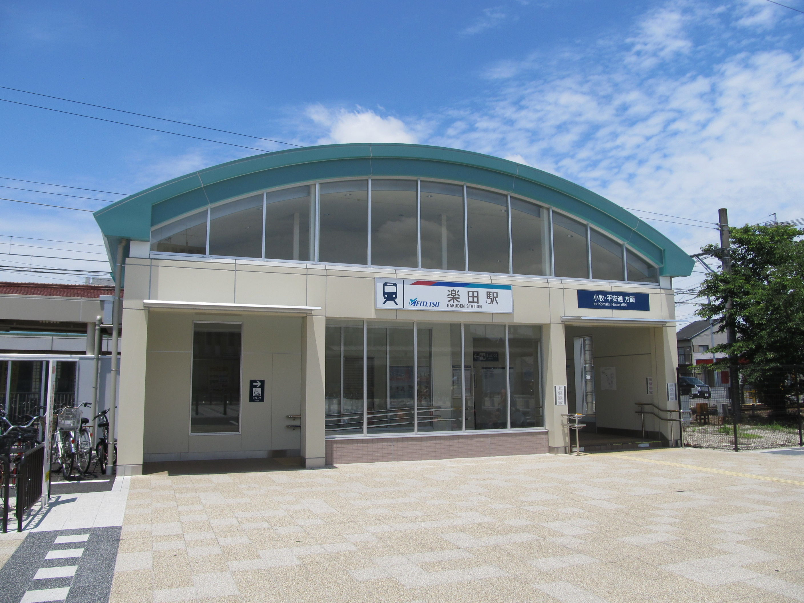 Nagoya Railroad Komaki Line Gakuden Station Building (for Komaki)